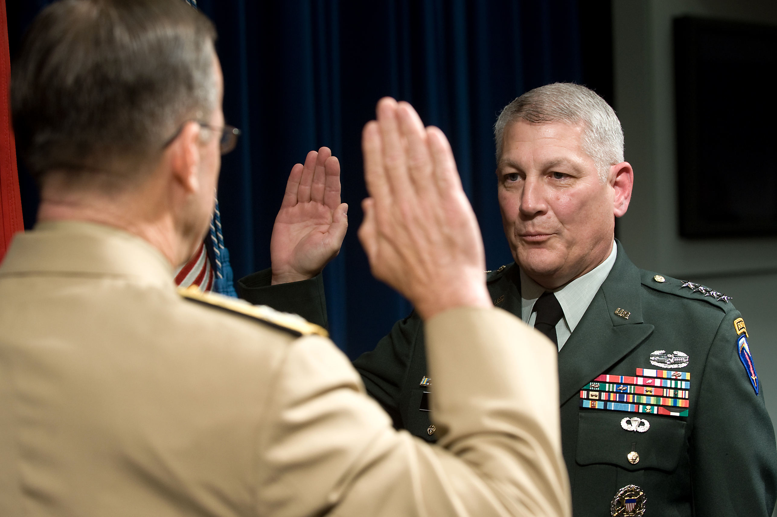 General Carter F. Ham being sworn into office as the Commanding General, U.S. Army Europe by Cairman of the Joint Chief of Staff, Admiral Michael Mullen on August 28, 2008.